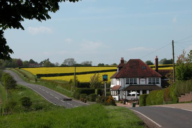 The Trooper Inn Froxfield. Parts of the pub date back to the early 17thC. It is thought that the pub was once used for recruiting soldiers, which might explain the name.